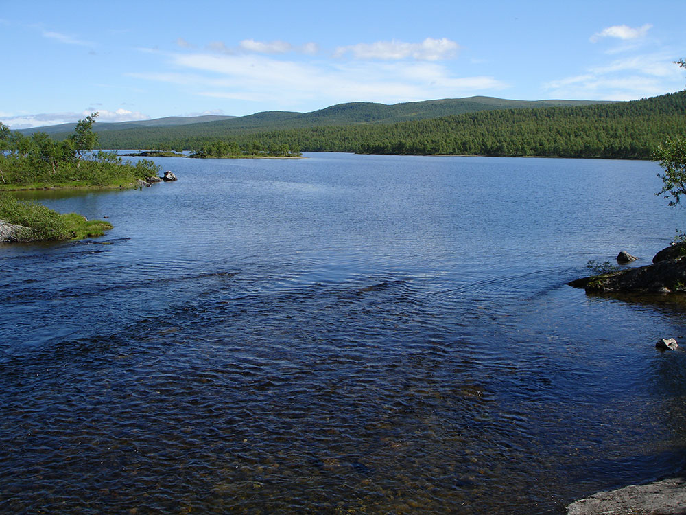 The outlet of Lake Nedre Vapstsjön into River Vapstälven